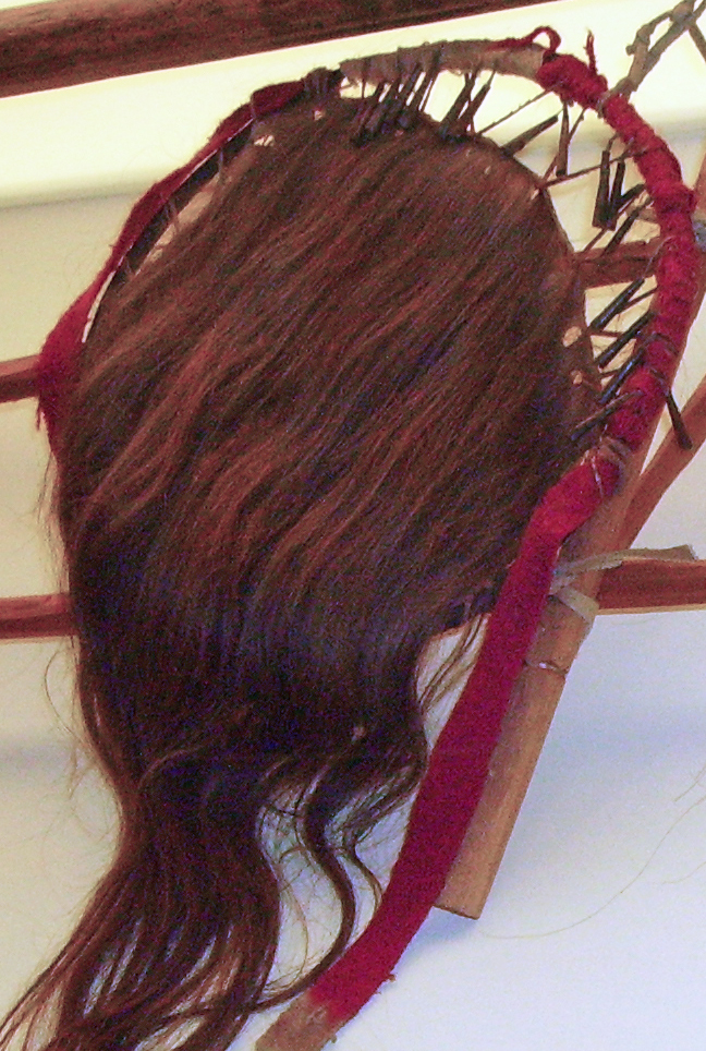 Scalp, Karl May Museum in Radebeul.